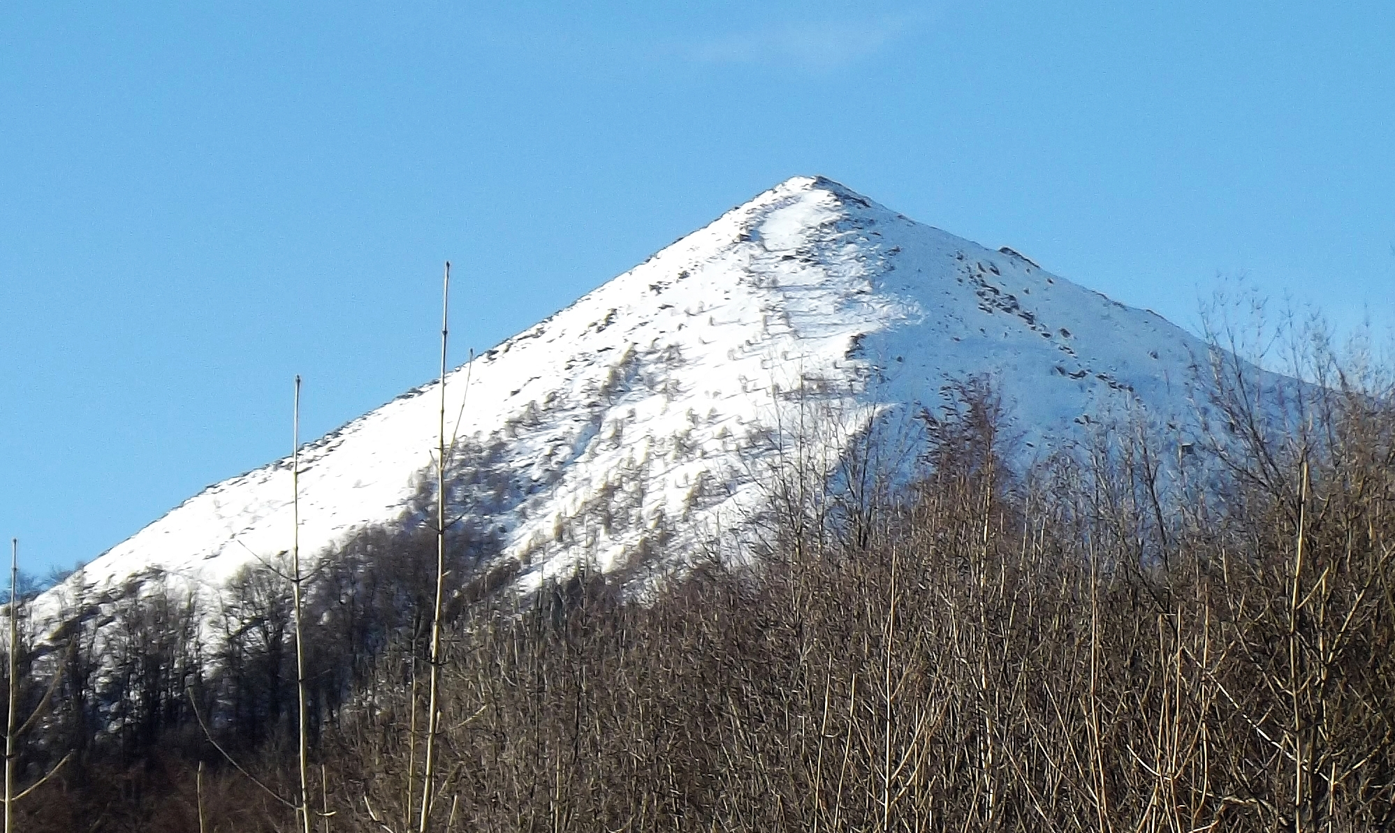 Monte Rognoso from Col San Giovanni (TO, Italy)